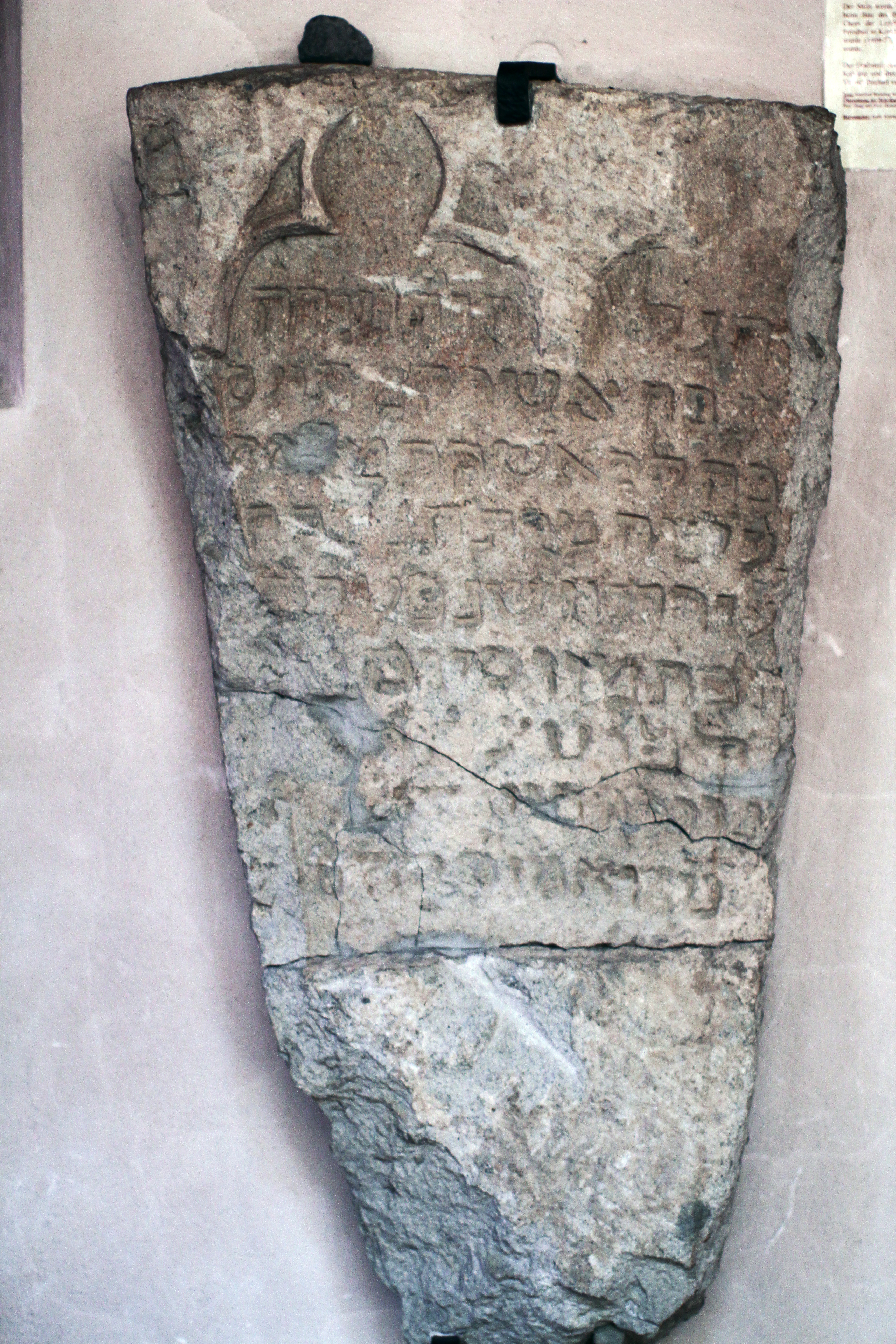 Church Liebfrauen in Koblenz, Germany